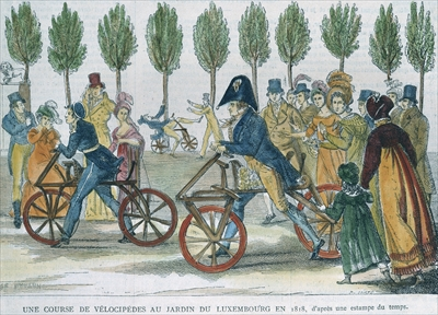 A velocipede race at Jardin du Luxembourg in 1818, after an engraving of the time.